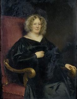 Portrait de la marquise douairière de Croix, née Eugénie de Vassé, épouse de Charles-Lidwine, marquis de Croix